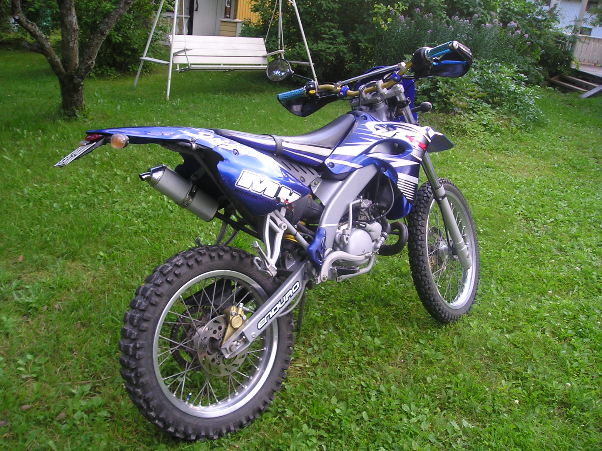 Photo of Motorhispania RYZ -moped.